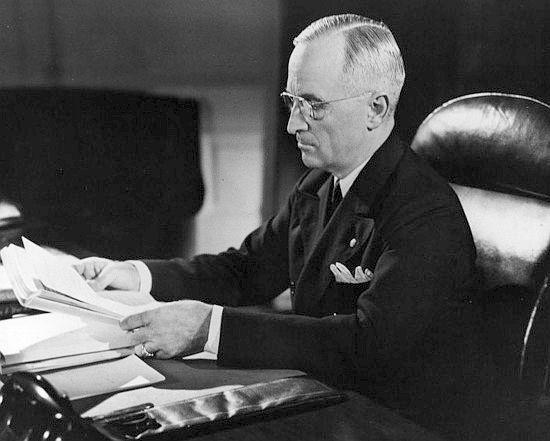 Official photograph of Harry S. Truman during his first term of office in the presidency. President Truman sitting at his desk in the White House